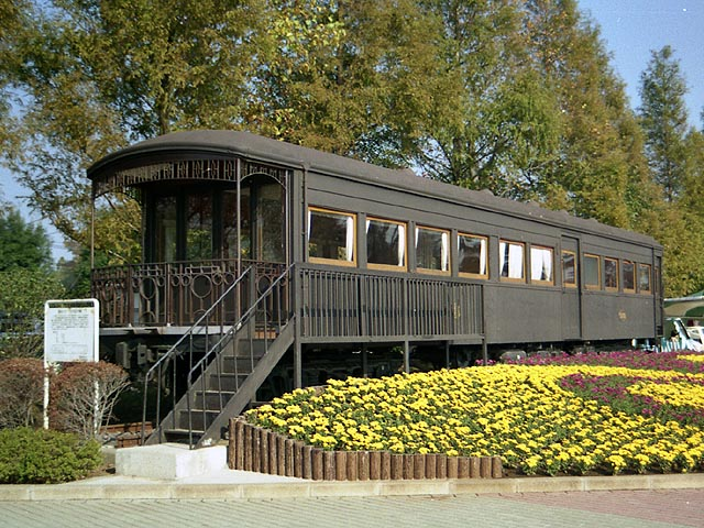 東武鉄道トク500 Tobu-railway toku500series